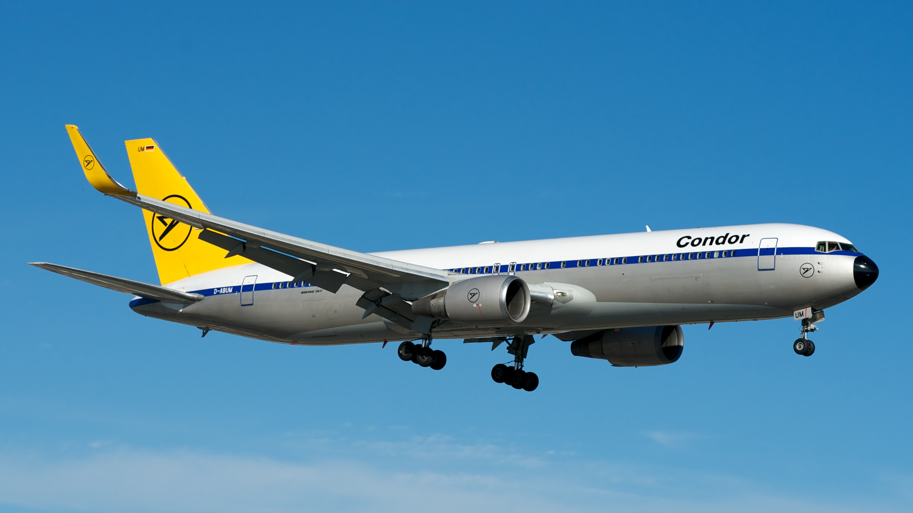 Condor in stunning retro colour on short final, Runway 23, Toronto-Pearson.